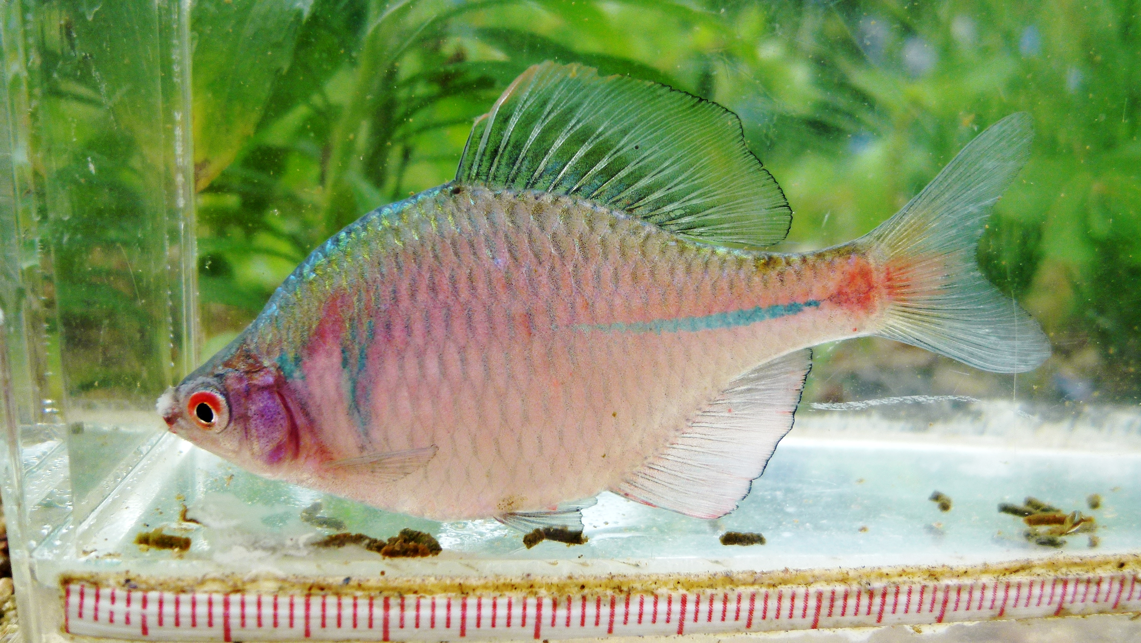 Rhodeus ocellatus kurumeus Jordan and Thompson, 1914, male, the Japanese rosy bitterling, taken in Japan, Kagawa Pref.; released by Book74